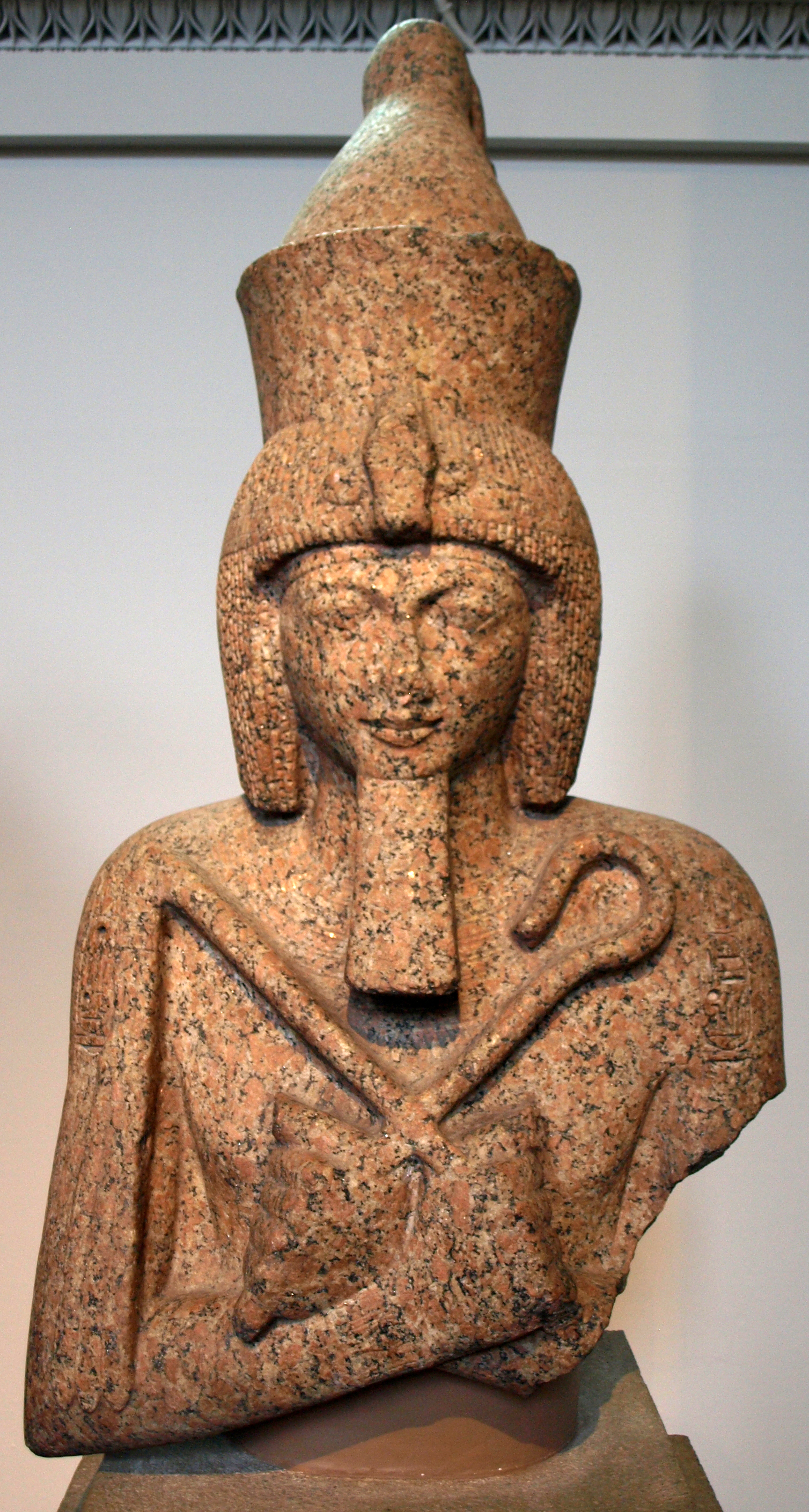 Bust of Ramesses II, originally from Aswan at Elephantine Island. The base of the statue can still be found in situ. 19th dynasty, circa 1250 BC. EA 67.